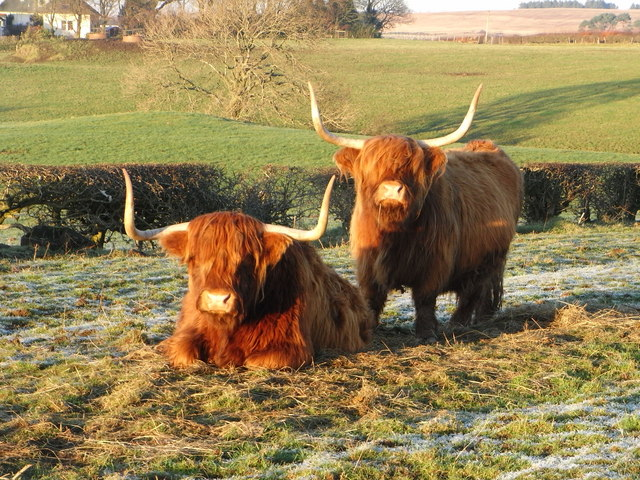 Highland cows near Kittochside